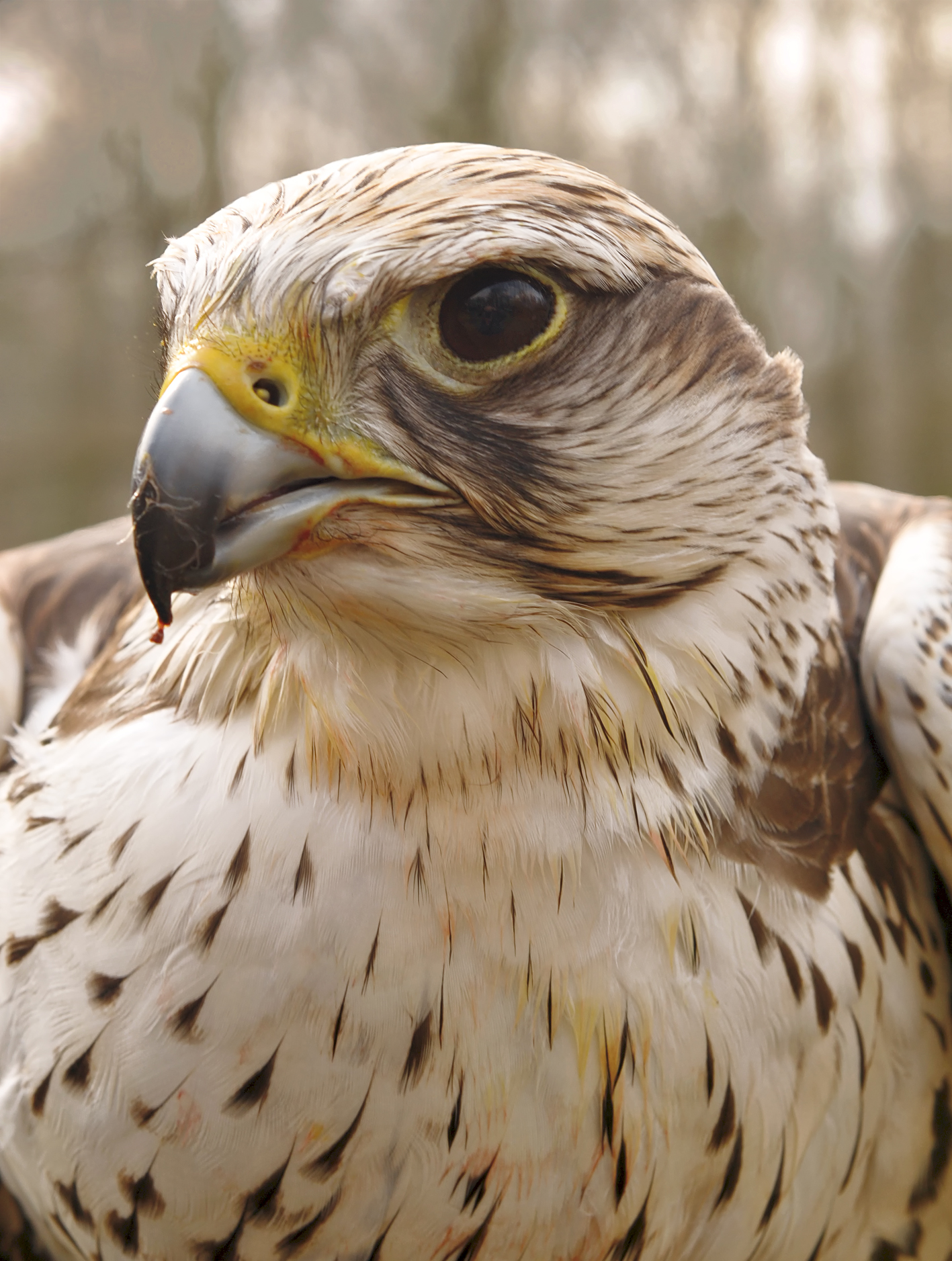 Saker Falcon from the Falkenhof in the Wisentgehege Springe game park near Springe, Hanover, Germany